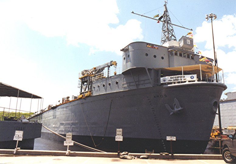 USS Waterford (ARD-5)